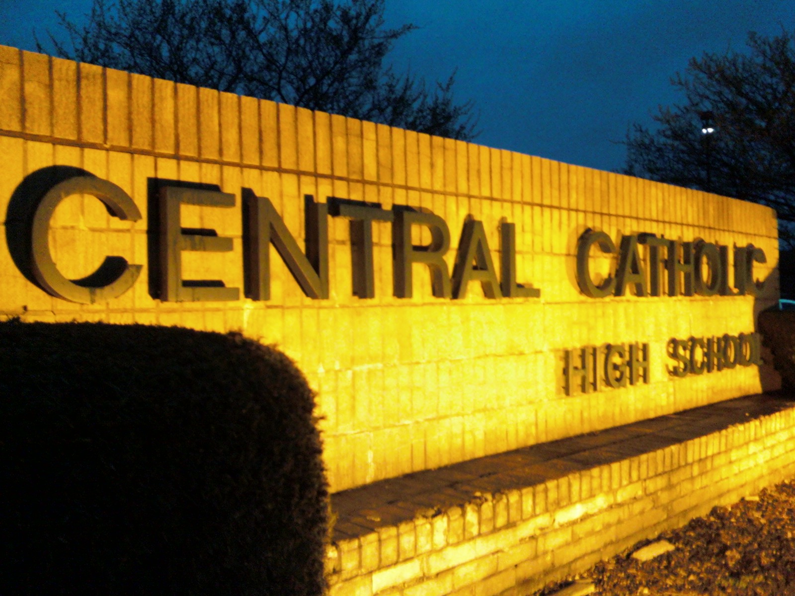 CCHS sign, Canton OH